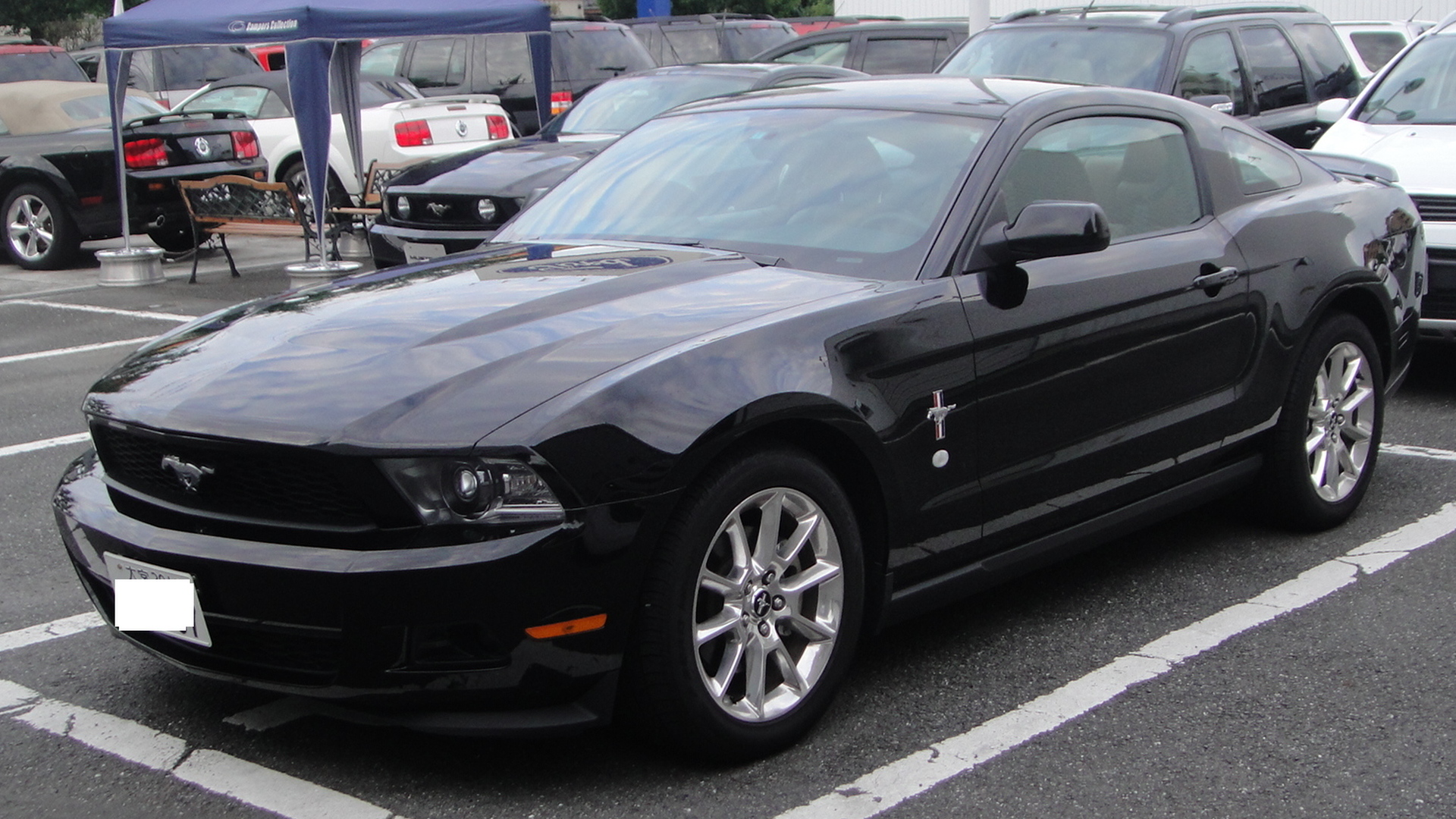 Ford Mustang front